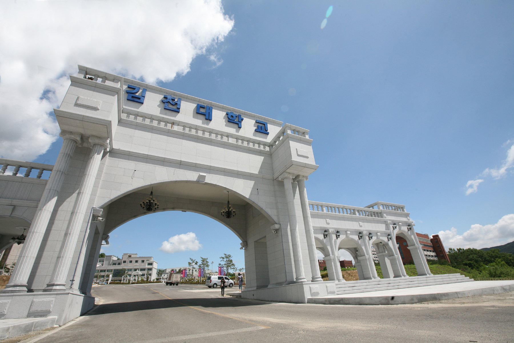 Gimcheon-university-gate